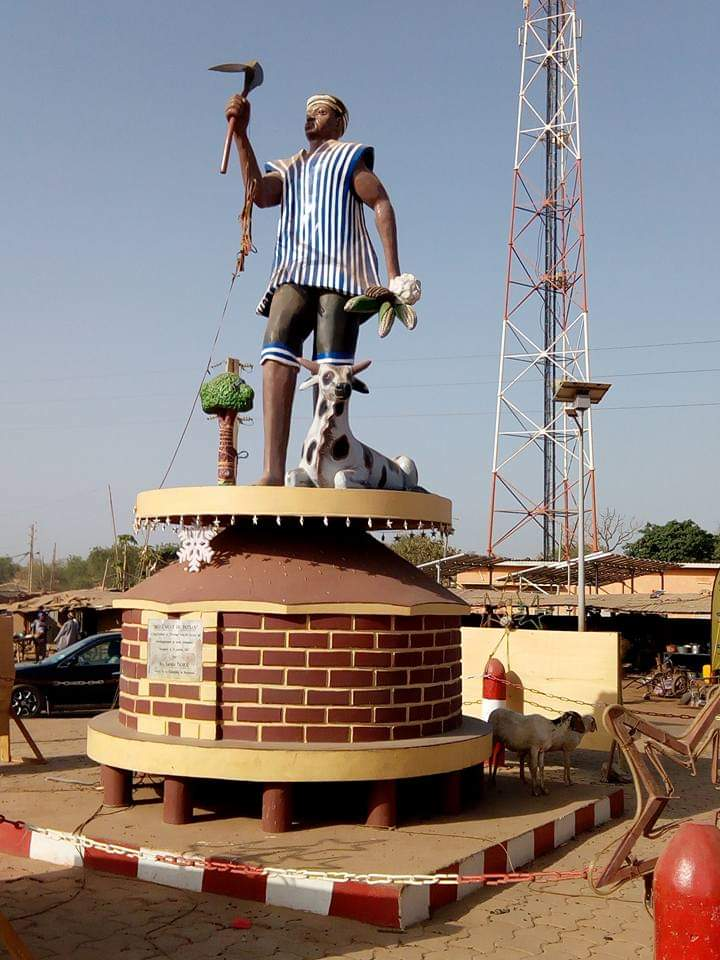 Front view of a status at Baniganse in the municipality of Banikoara